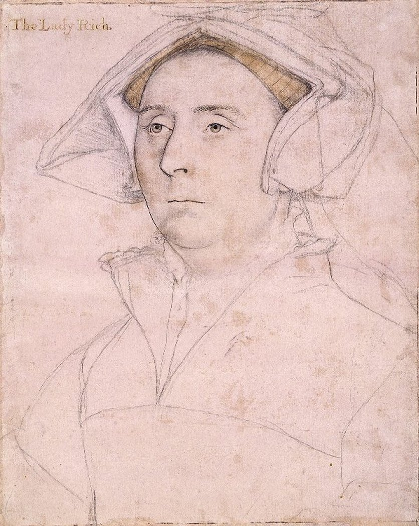 Portrait of Elizabeth, Lady Rich. Black and coloured chalks, pen and Indian ink, metalpoint, on pink-primed paper, 37.9 × 30.3cm, Royal Collection, Windsor Castle. The drawing has suffered from rubbing, and the penwork by another hand, according to the art historian K. T. Parker in his study of the Windsor drawings, is "rather coarse and fumbling". Holbein's left-handed shading can be seen in the headdress on the left. Two paintings based on this sketch by followers of Holbein survive, including one at the Metropolitan Museum of Art in New York. Elizabeth, Lady Rich (d. 1558), was the daughter of William Jenks, or Gynkes, a London grocer. She married Richard Rich, 1st Baron Rich, now notorious for his evidence against both Sir Thomas More and Sir Thomas Cromwell before their executions in 1535 and 1540. She bore Rich, whose portrait Holbein also drew, five sons and ten daughters. References K. T. Parker, The Drawings of Hans Holbein at Windsor Castle, Oxford: Phaidon, 1945, OCLC 822974, pp. 50–51. John Rowlands, Holbein: The Paintings of Hans Holbein the Younger, Boston: David R. Godine, 1985, ISBN 0879235780, p. 234.